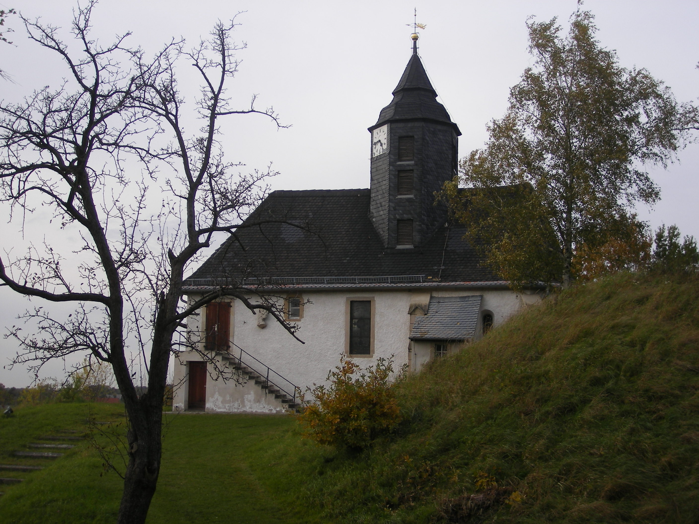 Church in Gerstenberg near Altenburg/Thuringia in Germany